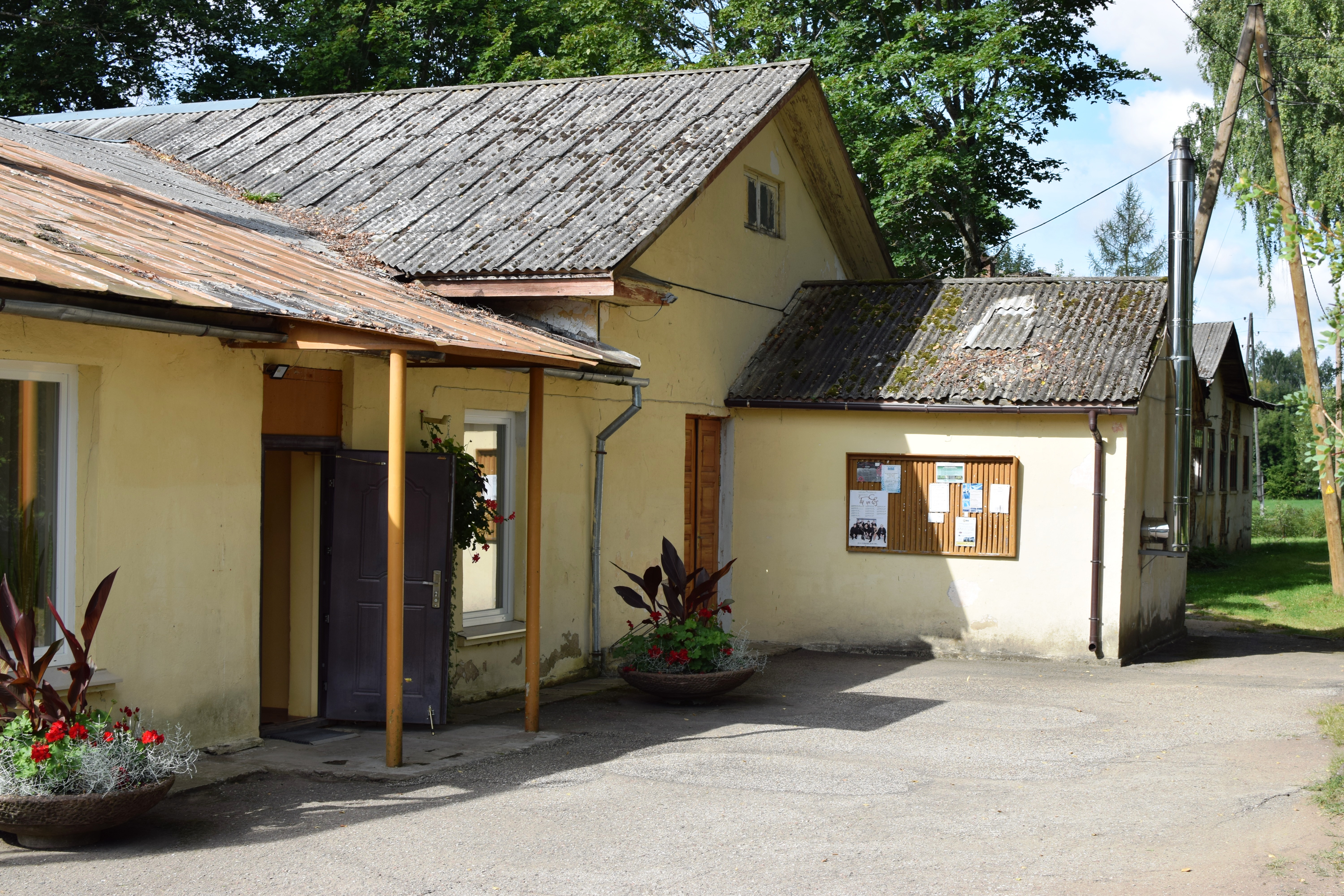 Saldus Municipality